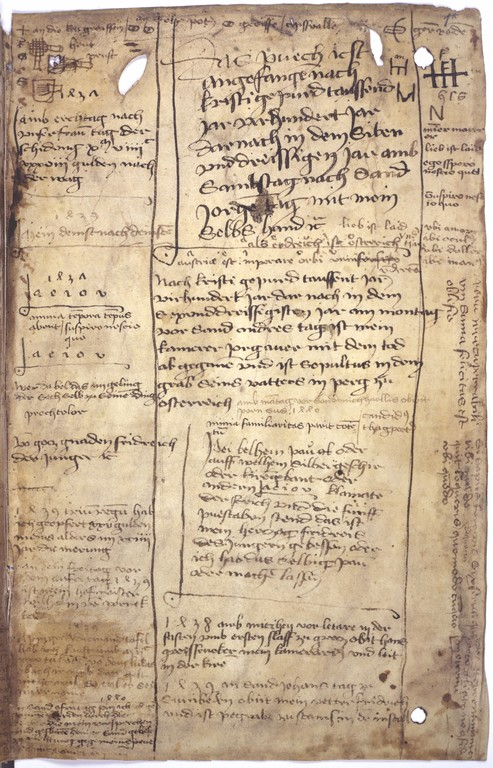 First page of the Notebook of Frederick III, later Holy Roman Emperor with the first known occurrence of A.E.I.O.U.. It is mostly written with his hand. The explication of aeiou is written with another handwriting.